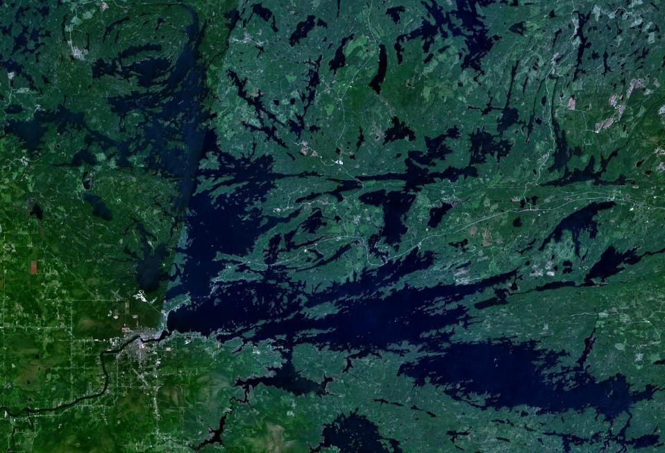 Satellite photo Rainy Lake, based program World Wind (NASA)